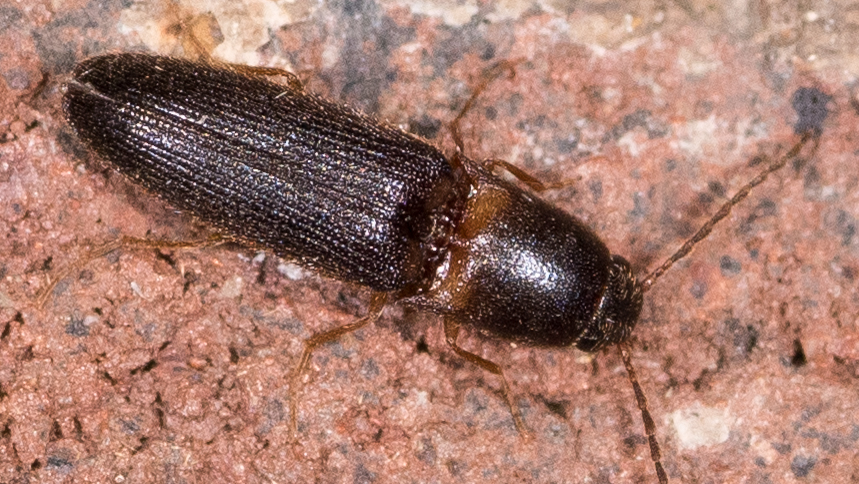 (Megapenthes rufilabris) Myersville, Frederick County, Maryland. August 20, 2015.